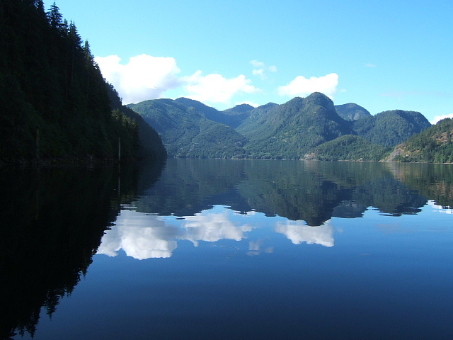 Another view of the fjord near Zeballos